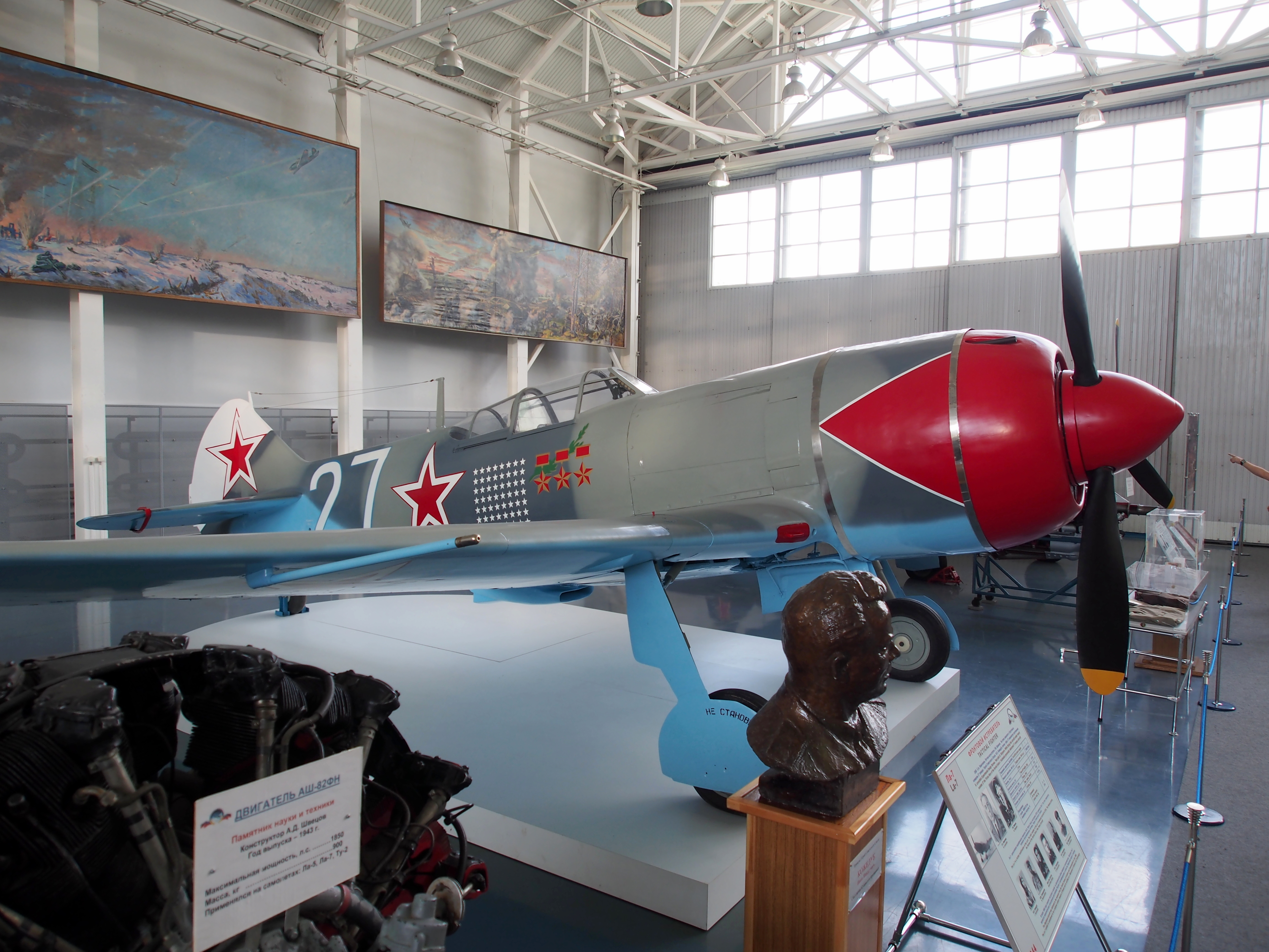 Lavochkin LA-7 at Central Russian Air Force museum, Monino